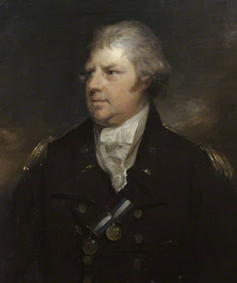 Depicted person: Thomas Foley – Royal Navy admiral